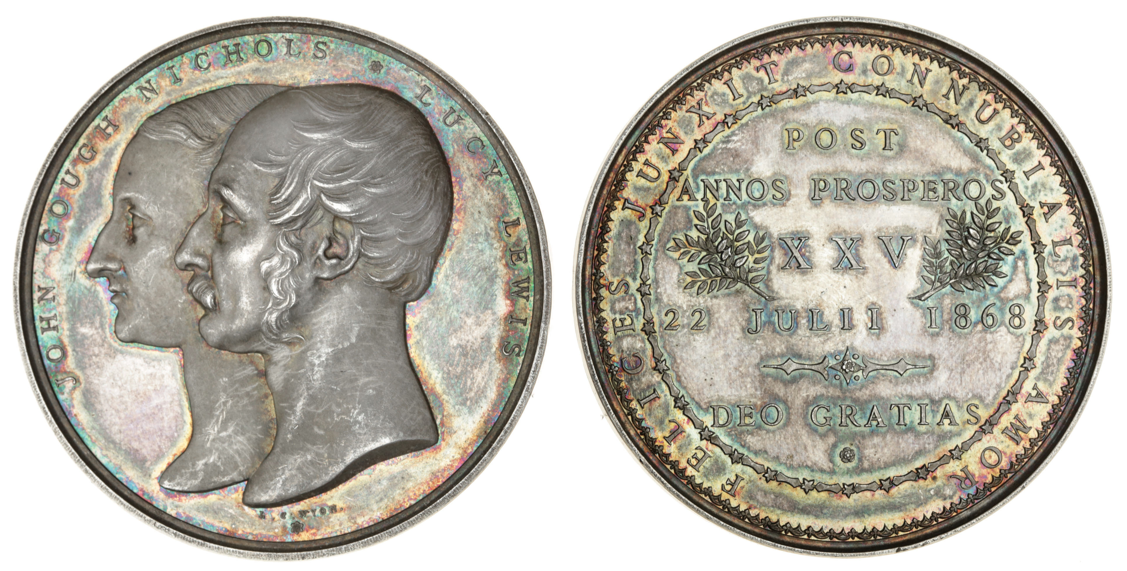 Lucy and John Gough Nichols, Anniversary Medal, engraved by Leonard Charles Wyon for thei Silver Wedding in 1868